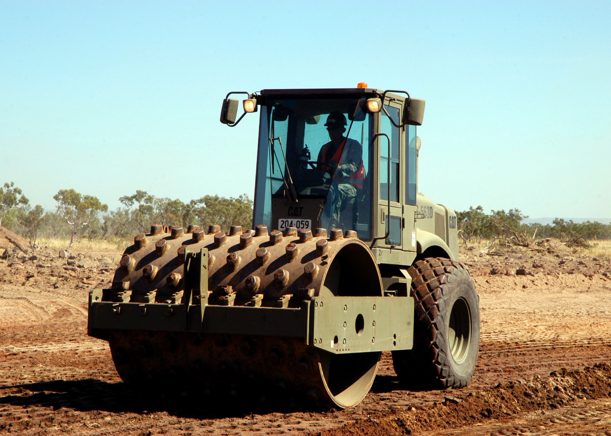 TIMBER CREEK, Australia (June 6, 2007) – Equipment Operator Constructionman Apprentice Jeremy K. Baker operates a sheepsfoot compactor/roller to compact the base of the runway project at Bradshaw Field Training Area. Members of Naval Mobile Construction Battalion (NMCB) 4 are deployed in support of United States- Australian Defense Joint Rapid Airfield Construction exercise Talisman Saber.